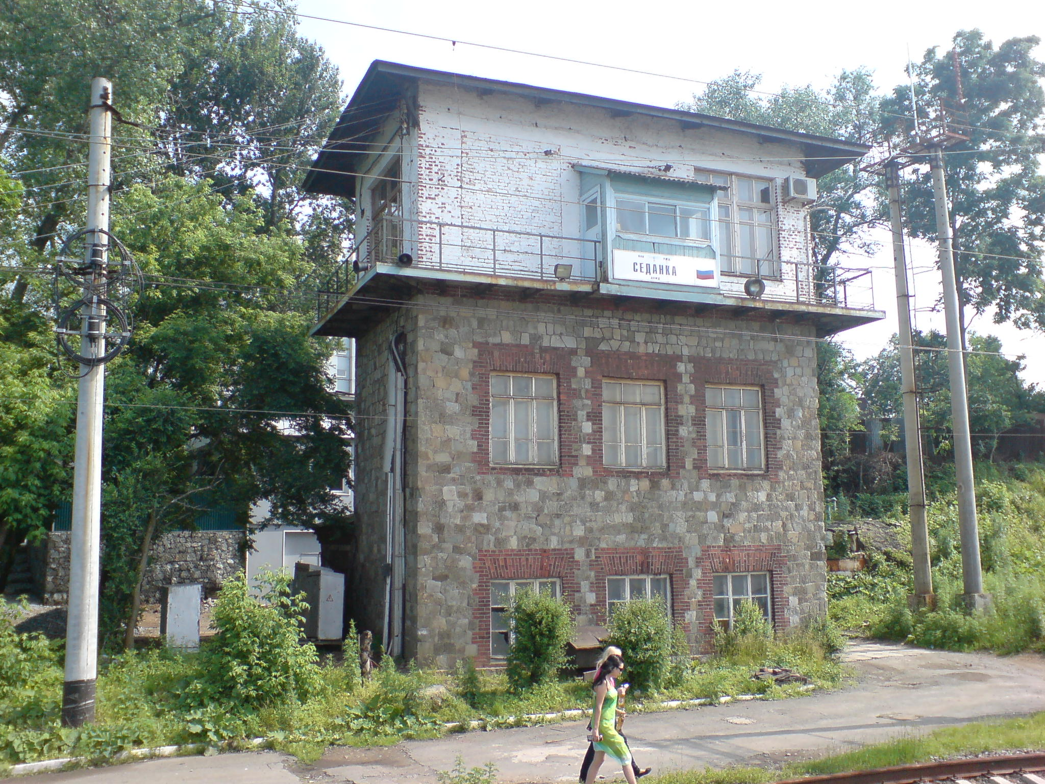 Sedanka Railway Station